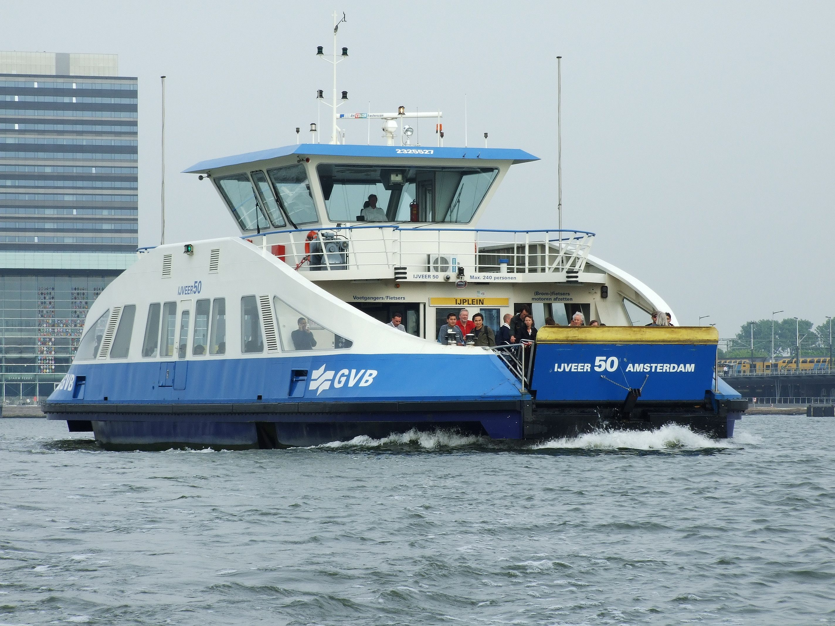 The Ij Ferry, Amsterdam